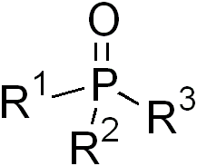 General structure of a phosphine oxide created with ChemDraw.